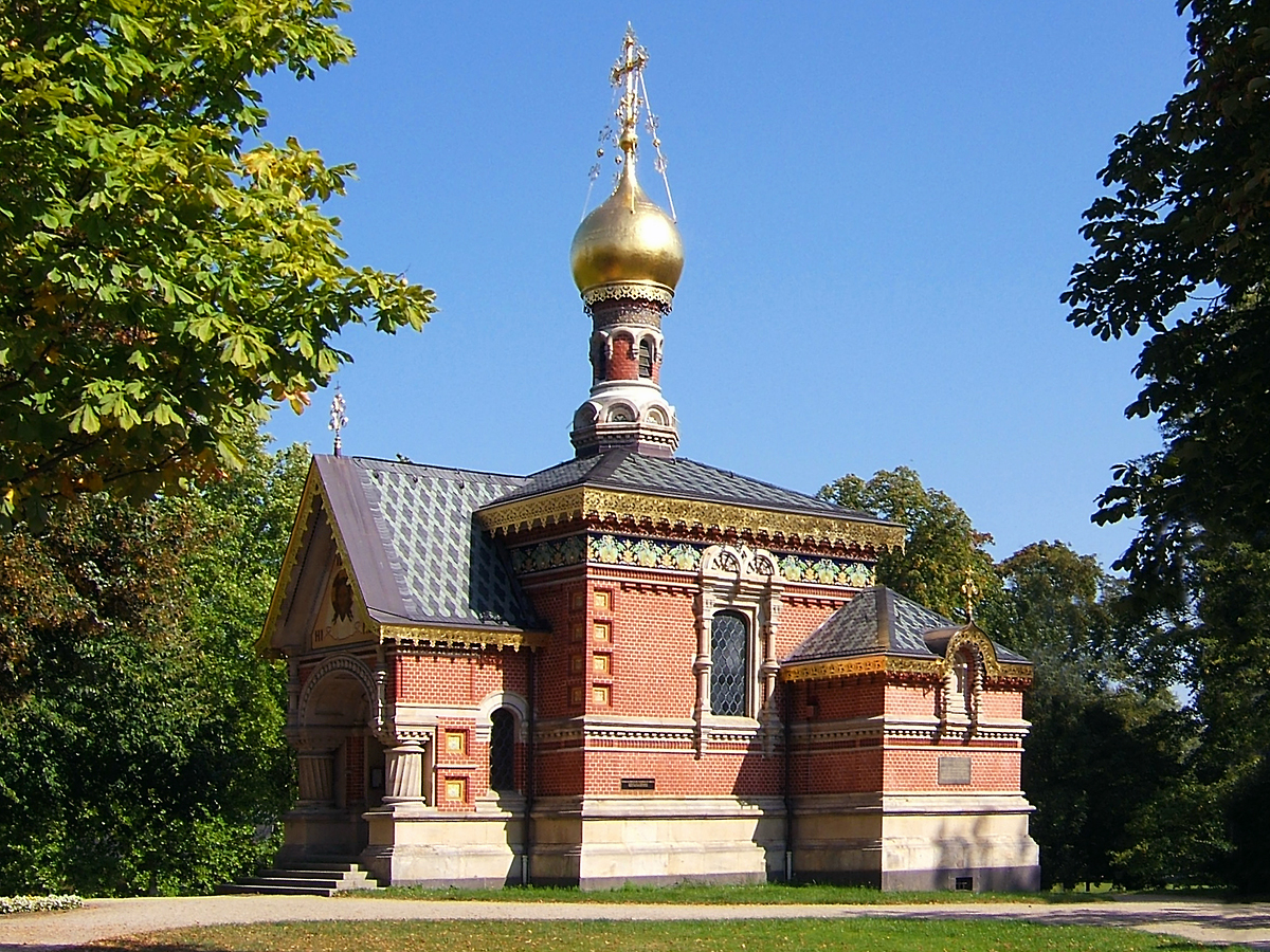 The Russian Chapel in Bad Homburg vor der Höhe, Germany